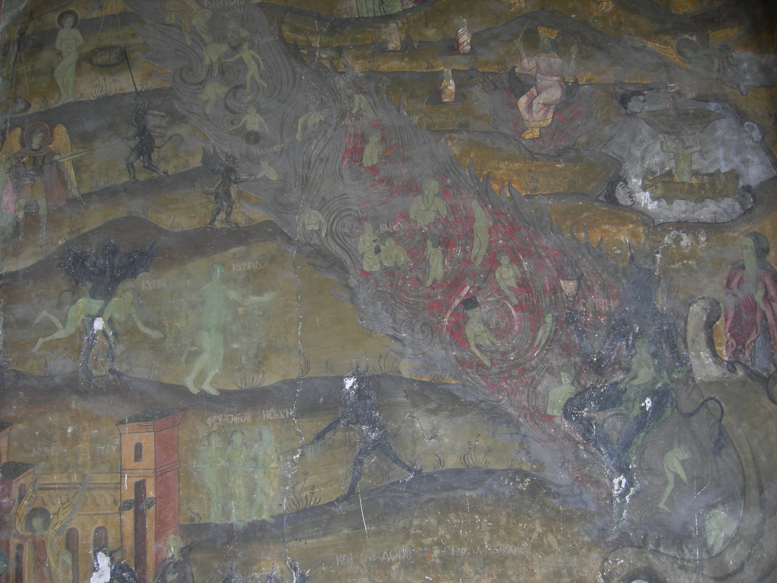 Biserica Sf. Elefterie Veche (Old Church of St. Elefterie), Bucharest, Romania. Image of hell (exterior, front)